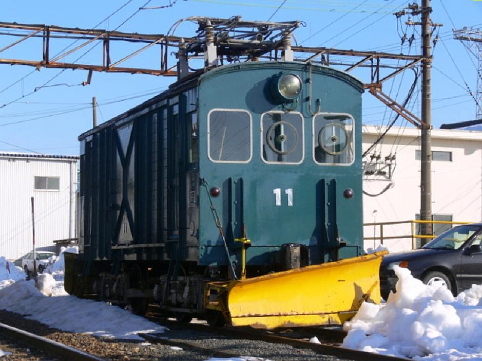 Fukui Railway Type Deki 10 Electric locomotive(Japan). It takes a picture from the home at FukubuLine Fukuishin Station.